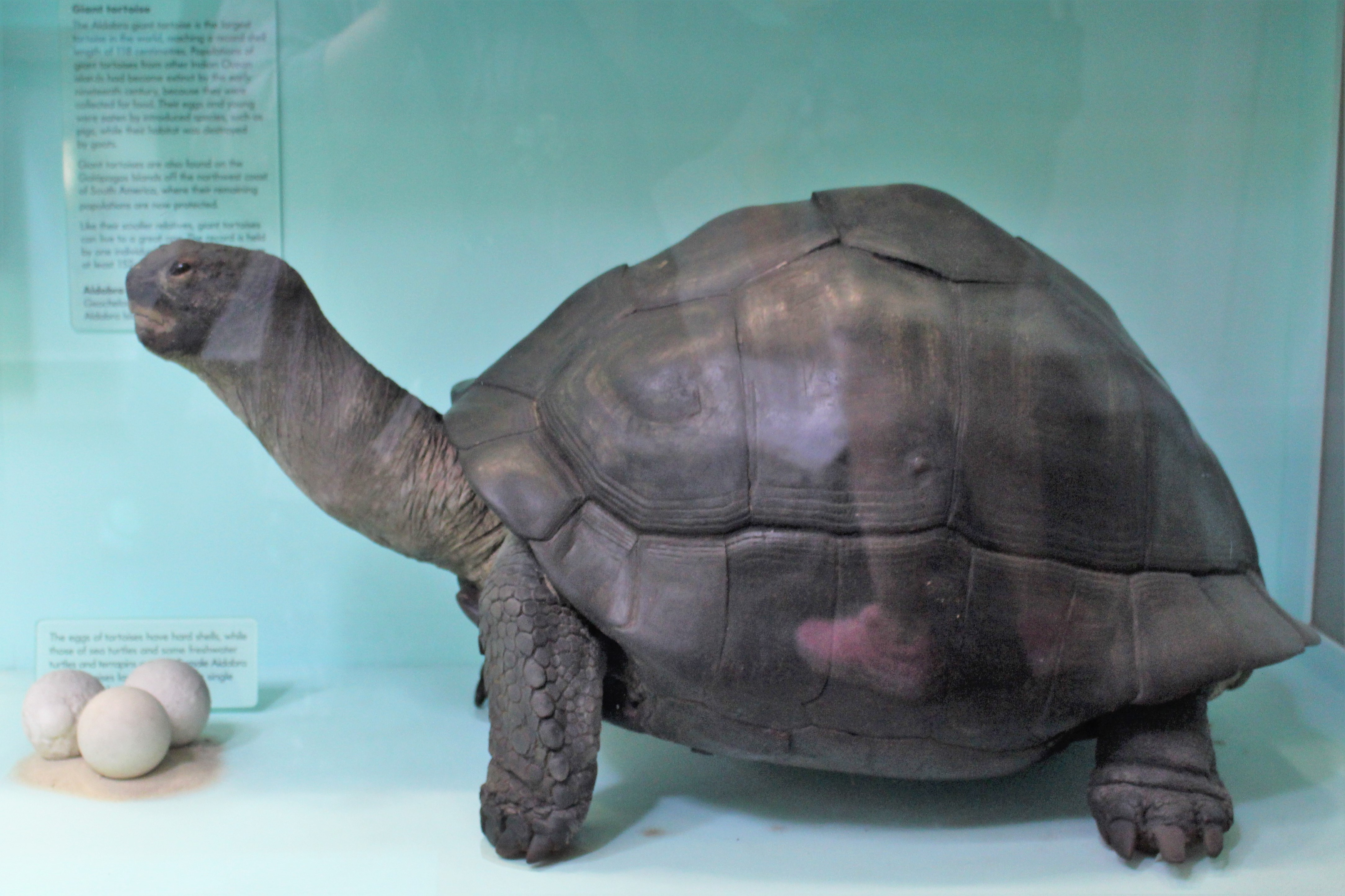 Taxidermied Aldabra giant tortoise (Aldabrachelys gigantea) and it's eggs, at the Natural History Museum in London, England.